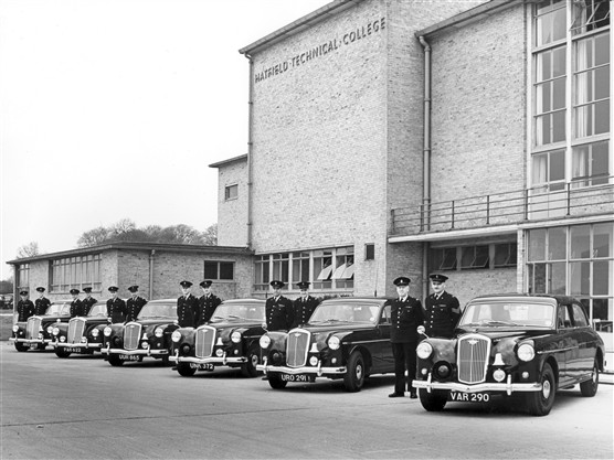 Hatfield Technical College circa 1960.